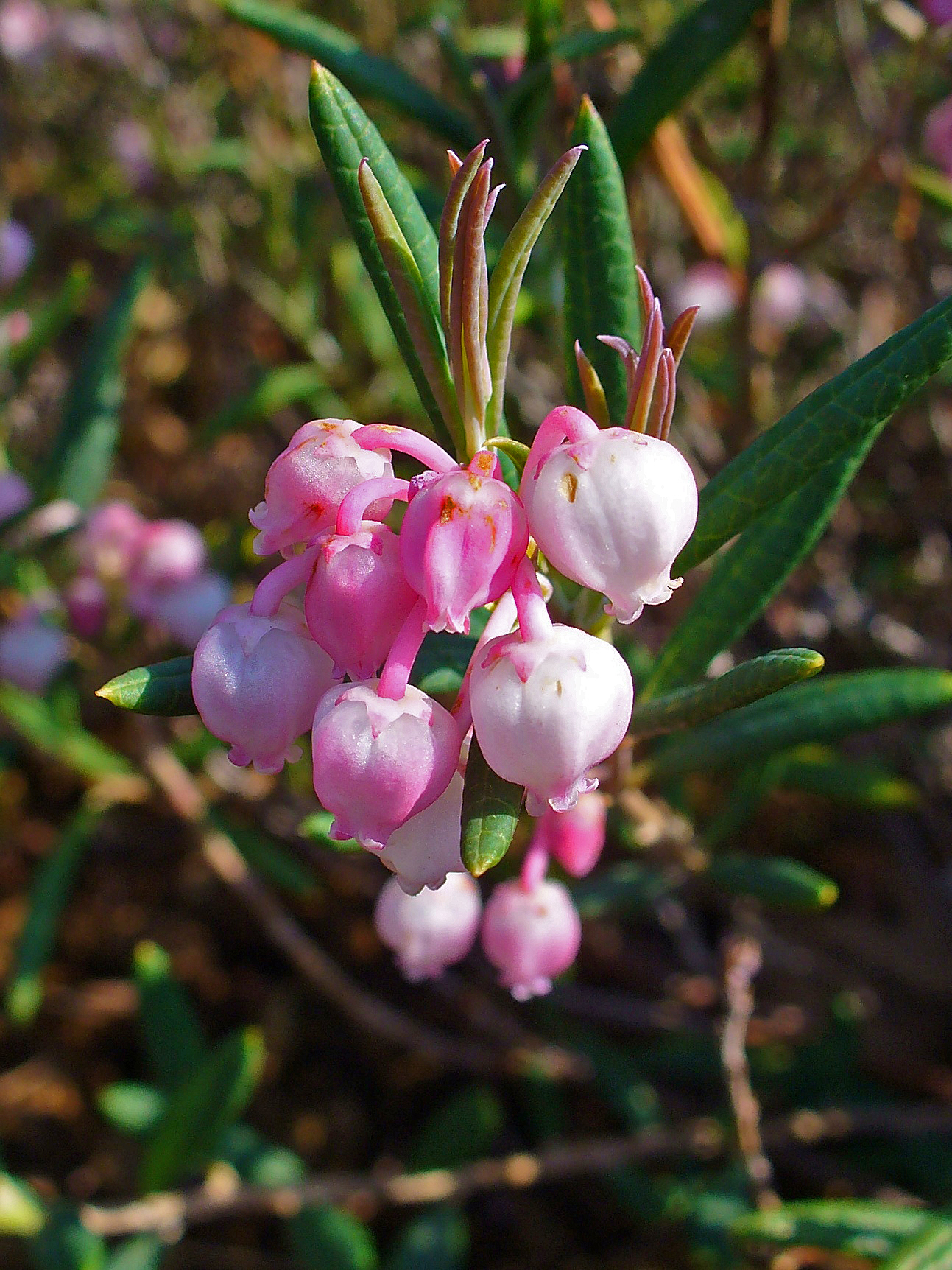 Andromeda polifolia, Ericaceae, Bog-rosemary, inflorescence; Botanical Garden KIT, Karlsruhe, Germany. The plant is used in homeopathy as remedy: Andromeda polifolia (Andro-p.)